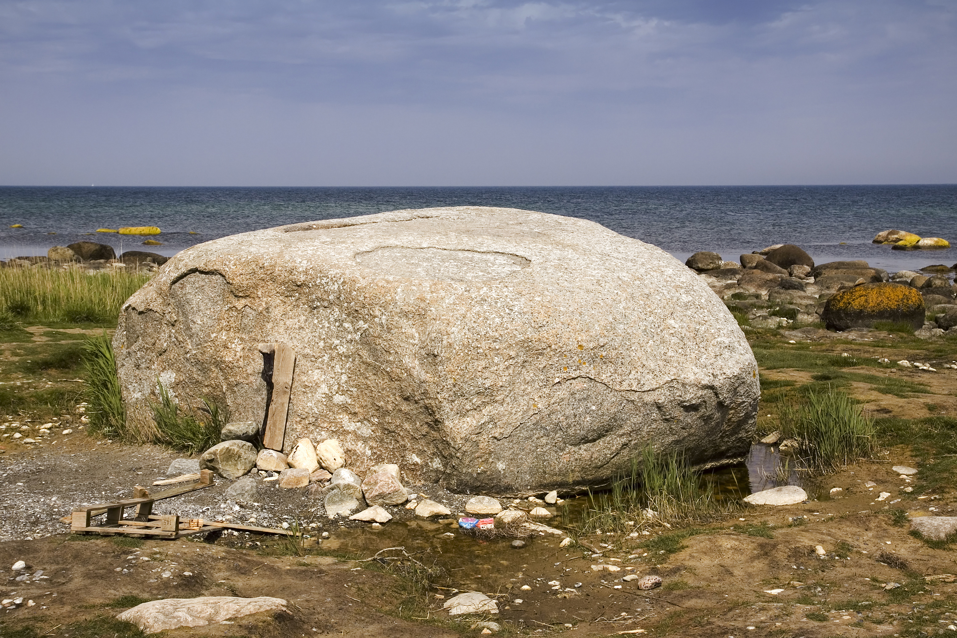 Siebenschneiderstein, glacial erratic near Cape Arkona